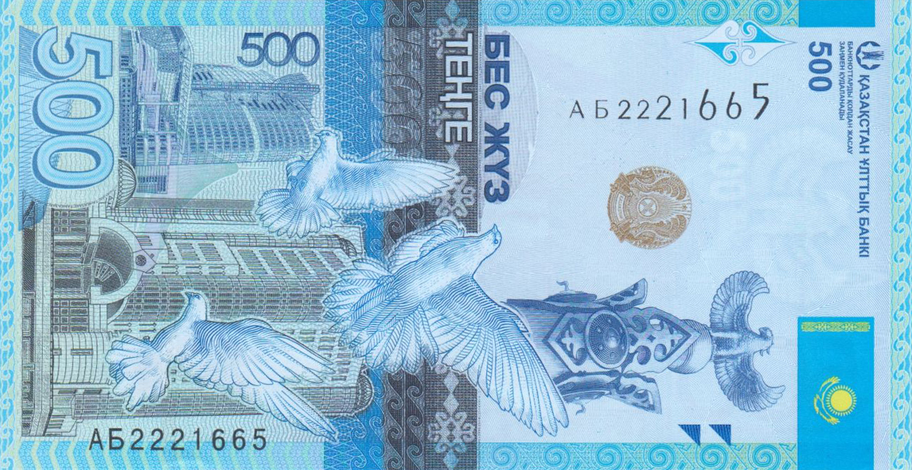 500 Kazakhstani tenge banknote issued in 2017 - averse